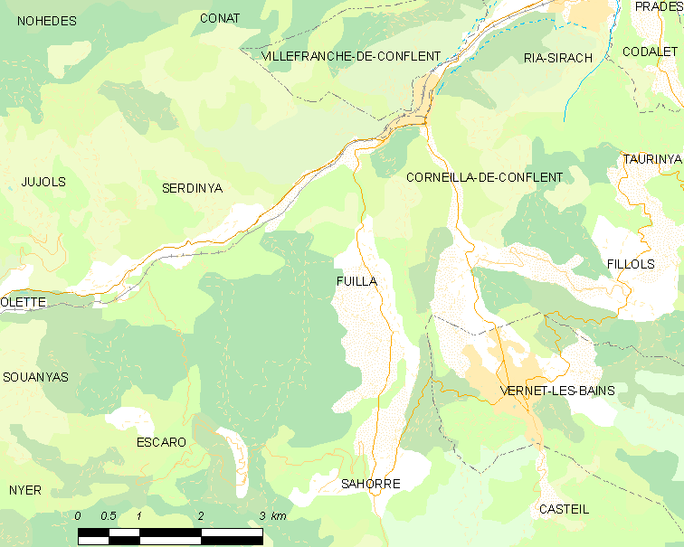 Map of French municipality